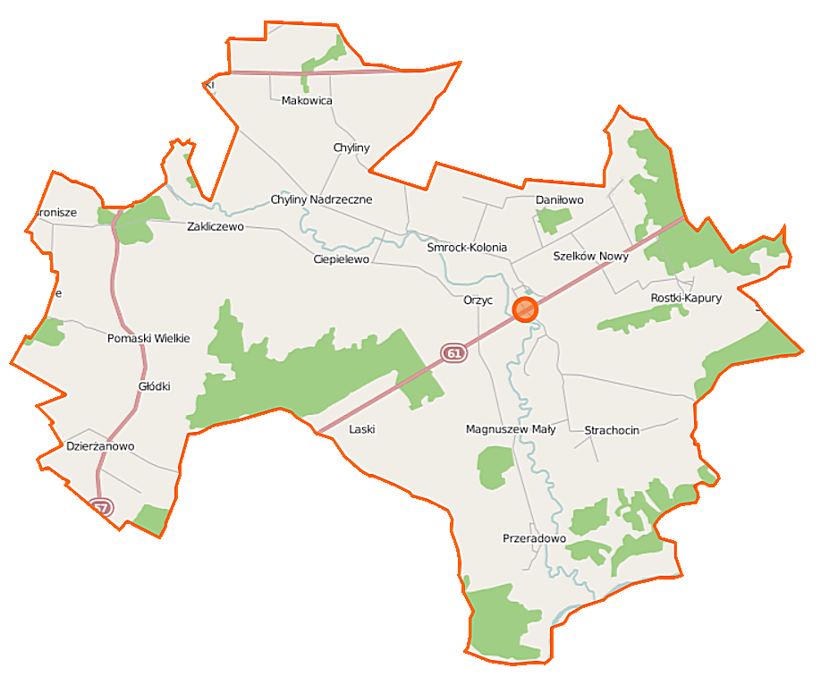 Map of Gmina Szelków, Poland This map of Szelków (gmina) was created from OpenStreetMap project data, collected by the community. This map may be incomplete, and may contain errors. Don't rely solely on it for navigation. Border coordinates52.879721.0453←↕→21.297352.7525